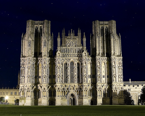 Wells Cathedral, Somerset